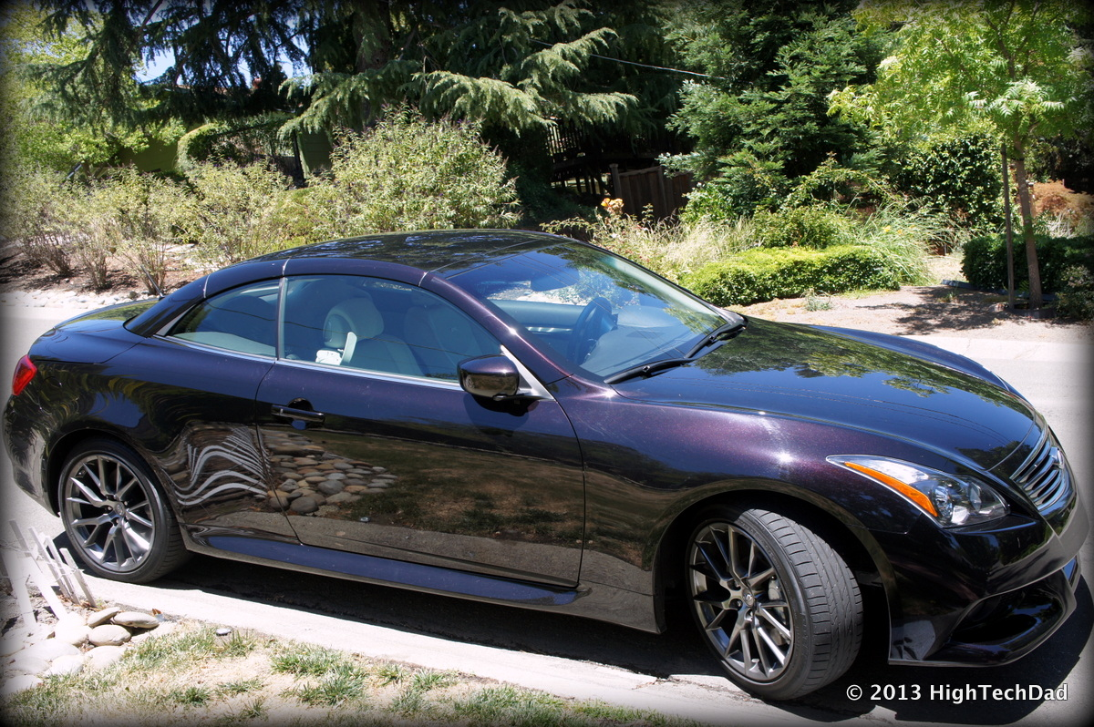 Photos from a 7-day test drive of the 2013 Infiniti G37 IPL Convertible. More information can be found at